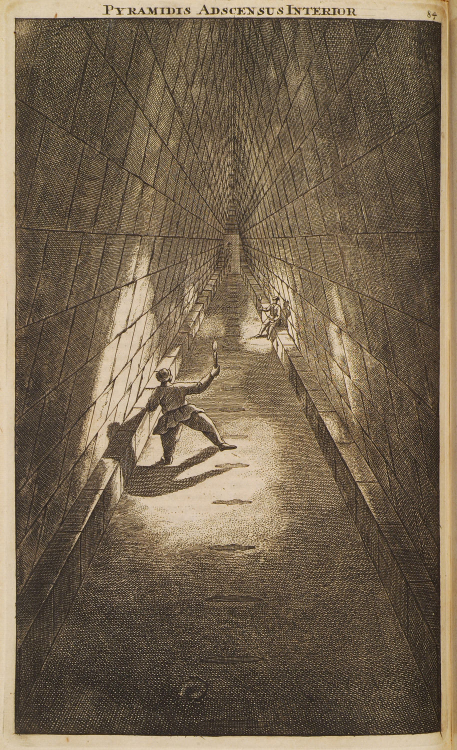 Cornelis de Bruyn. Voyage au Levant, c’est-à-dire, dans les principaux endroits de l’Asie Mineure, dans les isles de Chio, Rhodes, et Chypre et.c., Paris, Guillaume Cavelier, 1714.